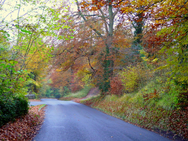 New Road, Ball's Green Looking downhill from Minchinhampton towards Nailsworth. Beeches provide the rich colour tones.